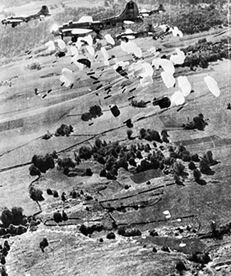 USAAF B-17 Flying Fortresses drop supplies to the Maquis in the Vercors.